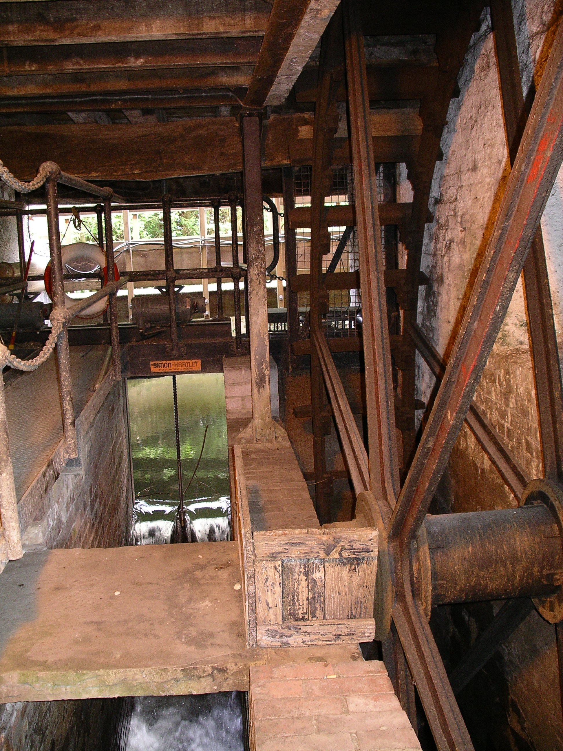 The water wheel at Saxon Mill, Warwickshire, England.